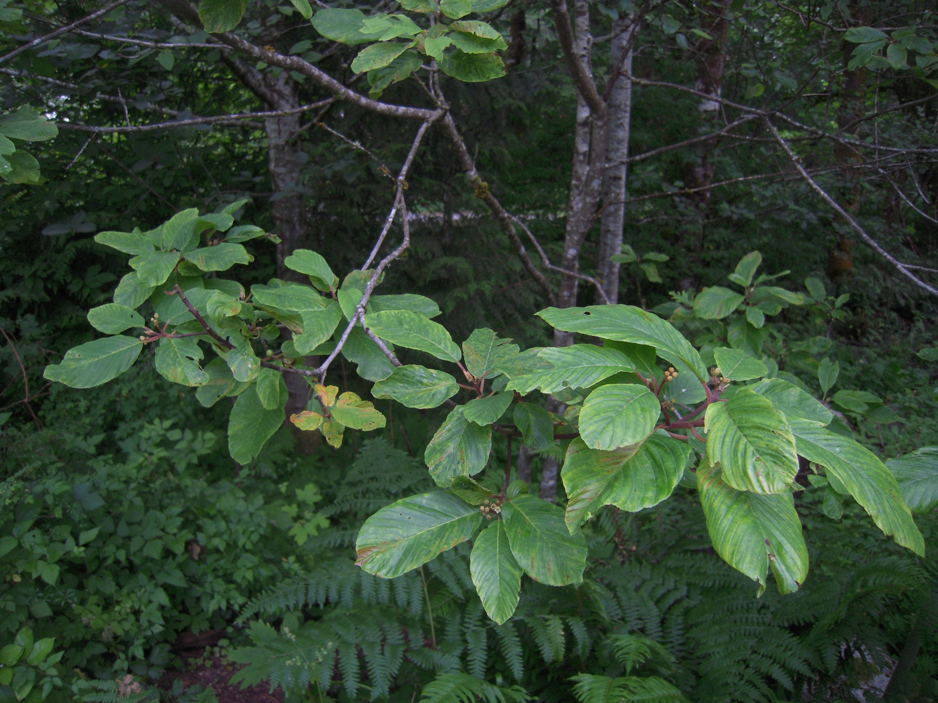 Cascara (Rhamnus purshiana) branch with leaves, flowers and buds. Photo taken at the Evergreen State College Longhouse Ethnobotanical Garden.